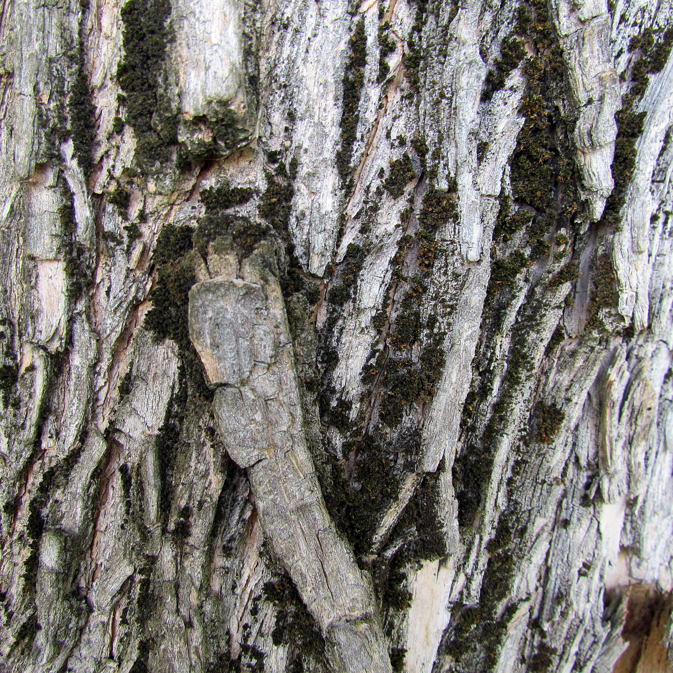 Maclura pomifera bark